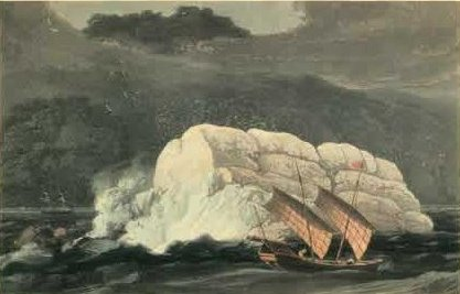 An etching of Pedra Branca before the building of Horsburgh Lighthouse, with dark storm clouds in the background. The caption of the image is "Pedra Branca, Straits of Malacca".